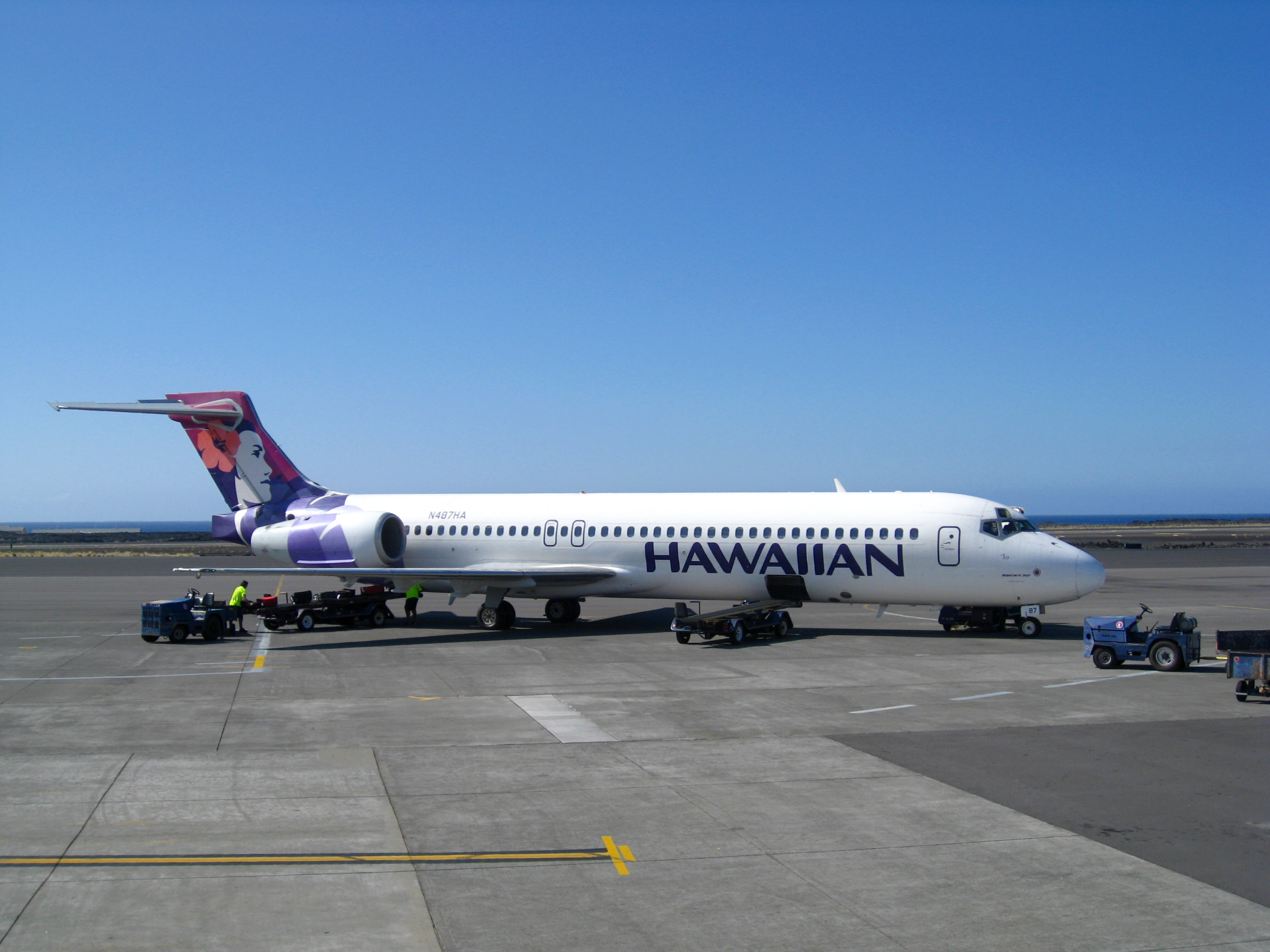 Hawaiian Airlines Boeing 717-200 at Kona International Airport (KOA) in December 2009.